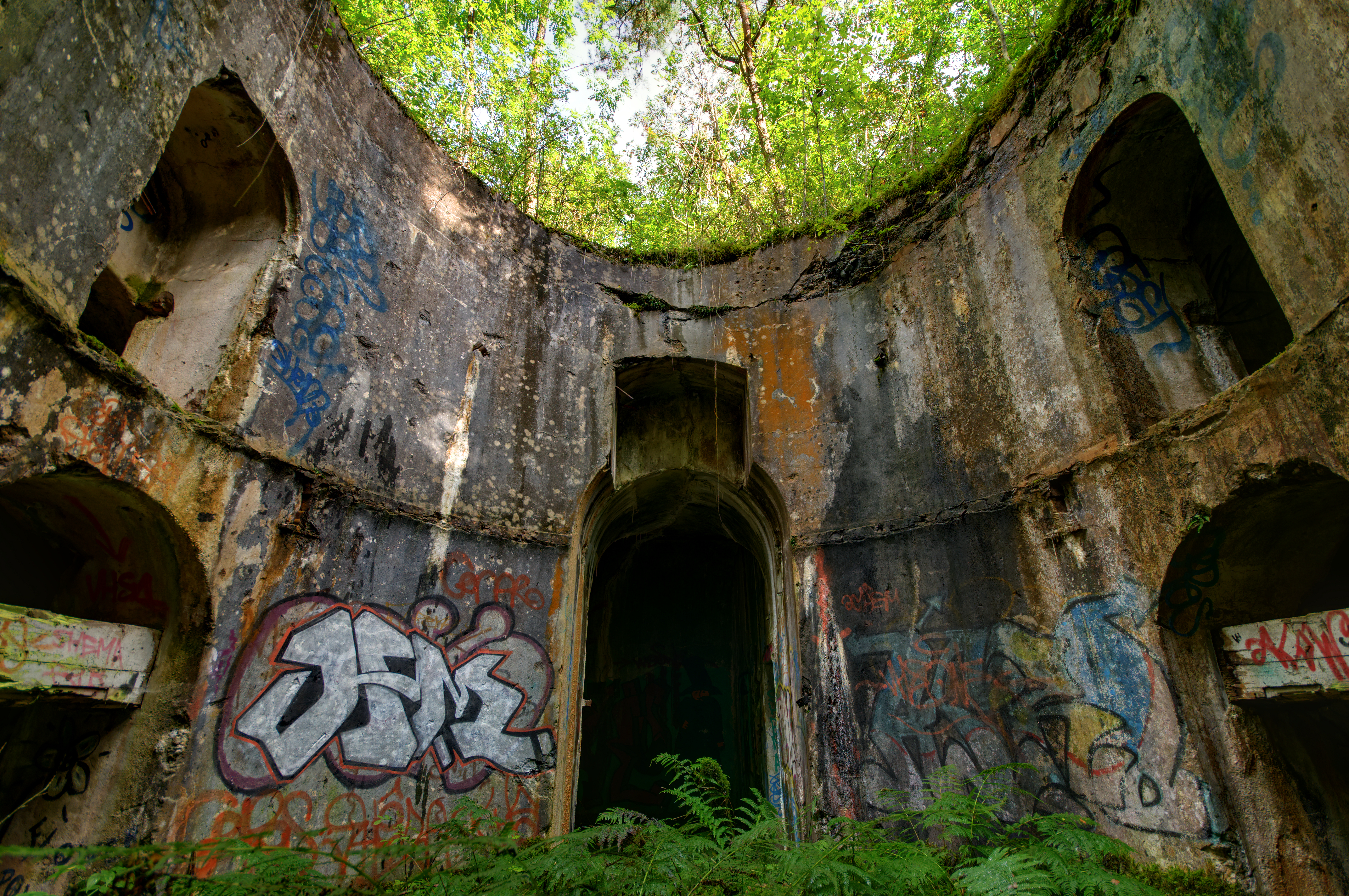 This photograph was taken with a Nikon D300 Fort d'Arches : puits de la tourelle Galopin de 155L (HDR).